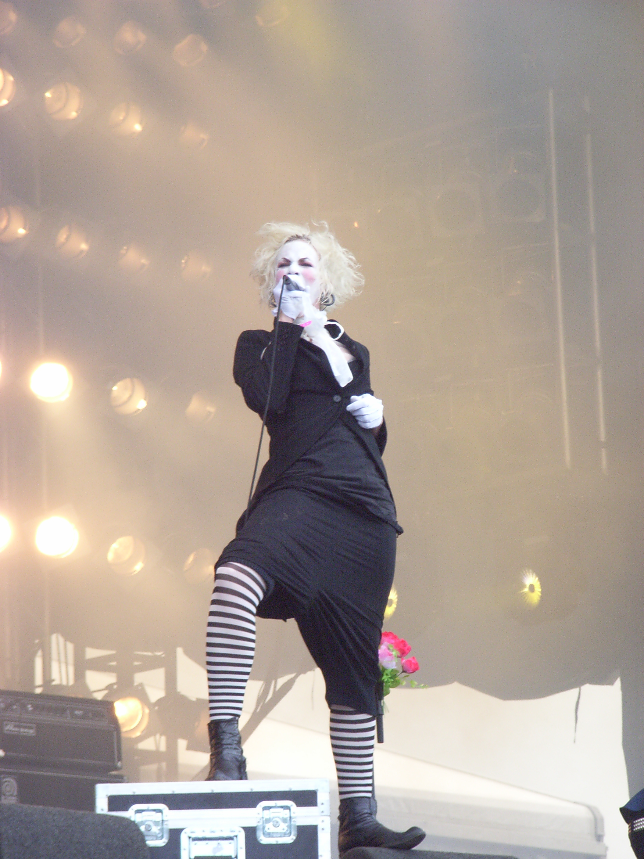 Animal Alpha at Pinkpop 2008 (Netherlands)